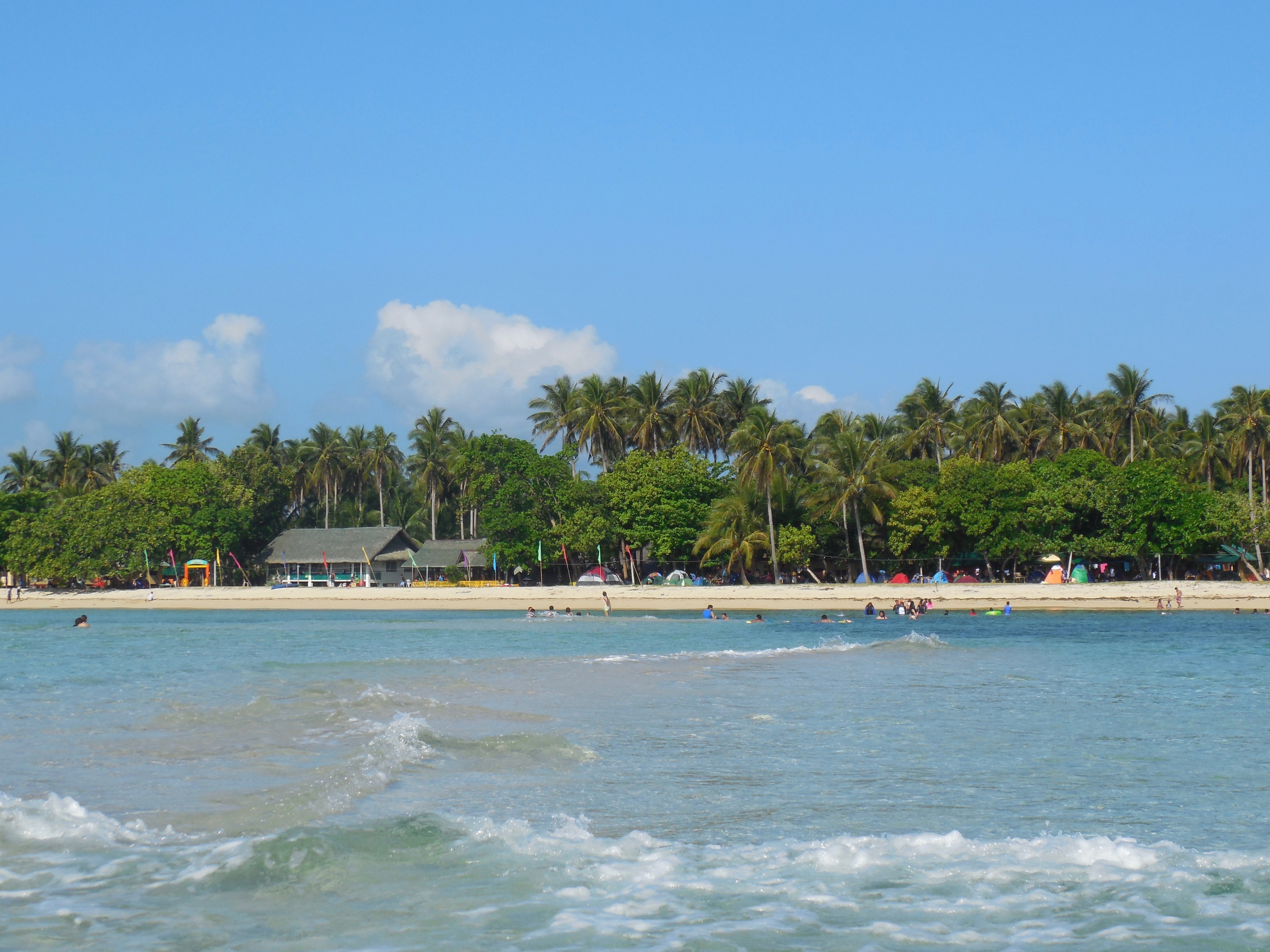 Cagbalete Island in Mauban, Quezon, showing Villa Cleofas Beach Resort on the east side of the island. Taken from the sand bar across the beach, facing west.